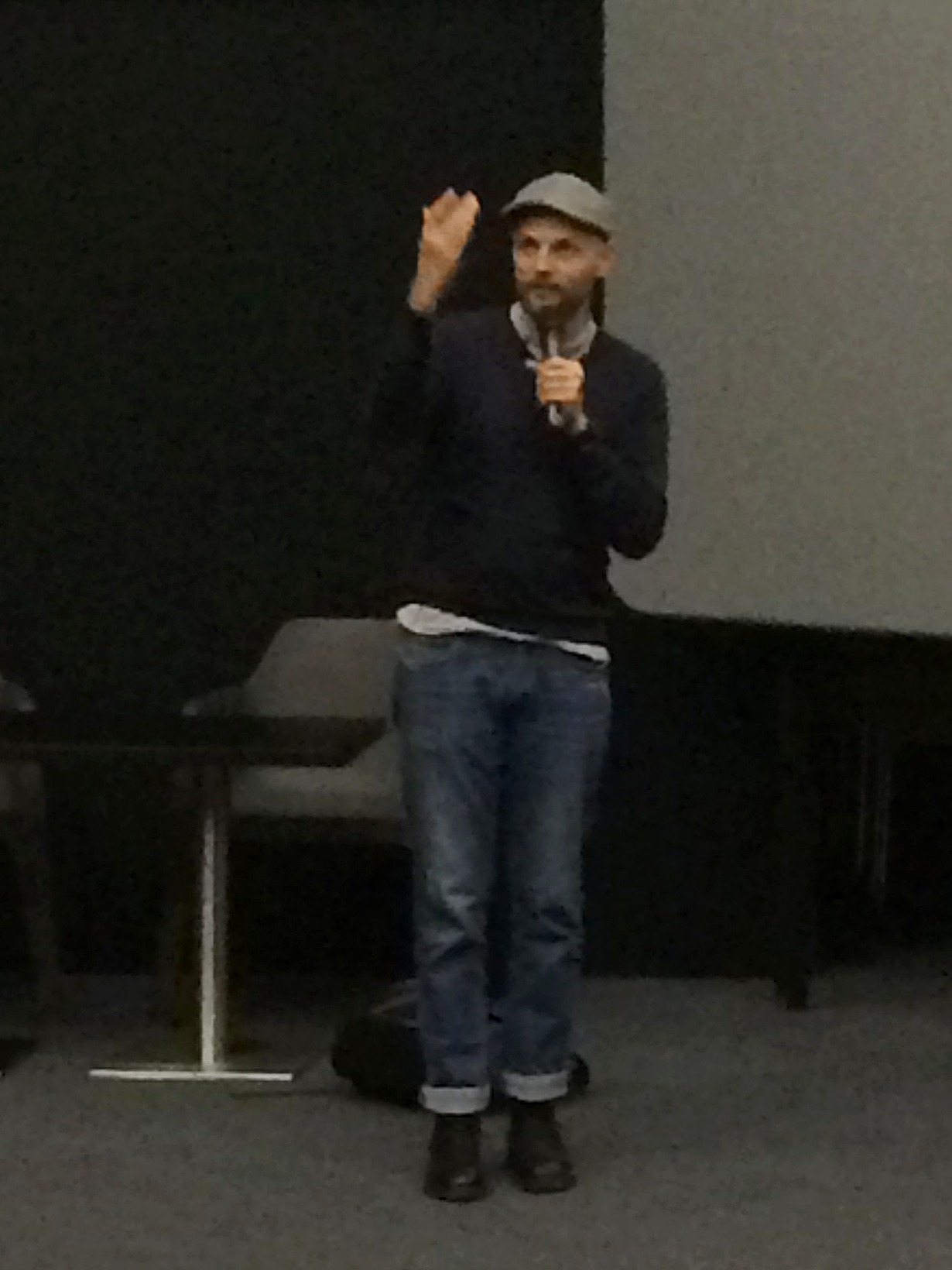 Ivan Vyrypaev at a meeting with moviegoers after watching the movie "dance Delhi" in the cinema MORI CINEMA (street Yartsevskaya, 19, Moscow).